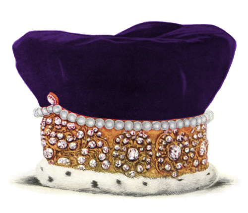 The Diadem of Mary of Modena